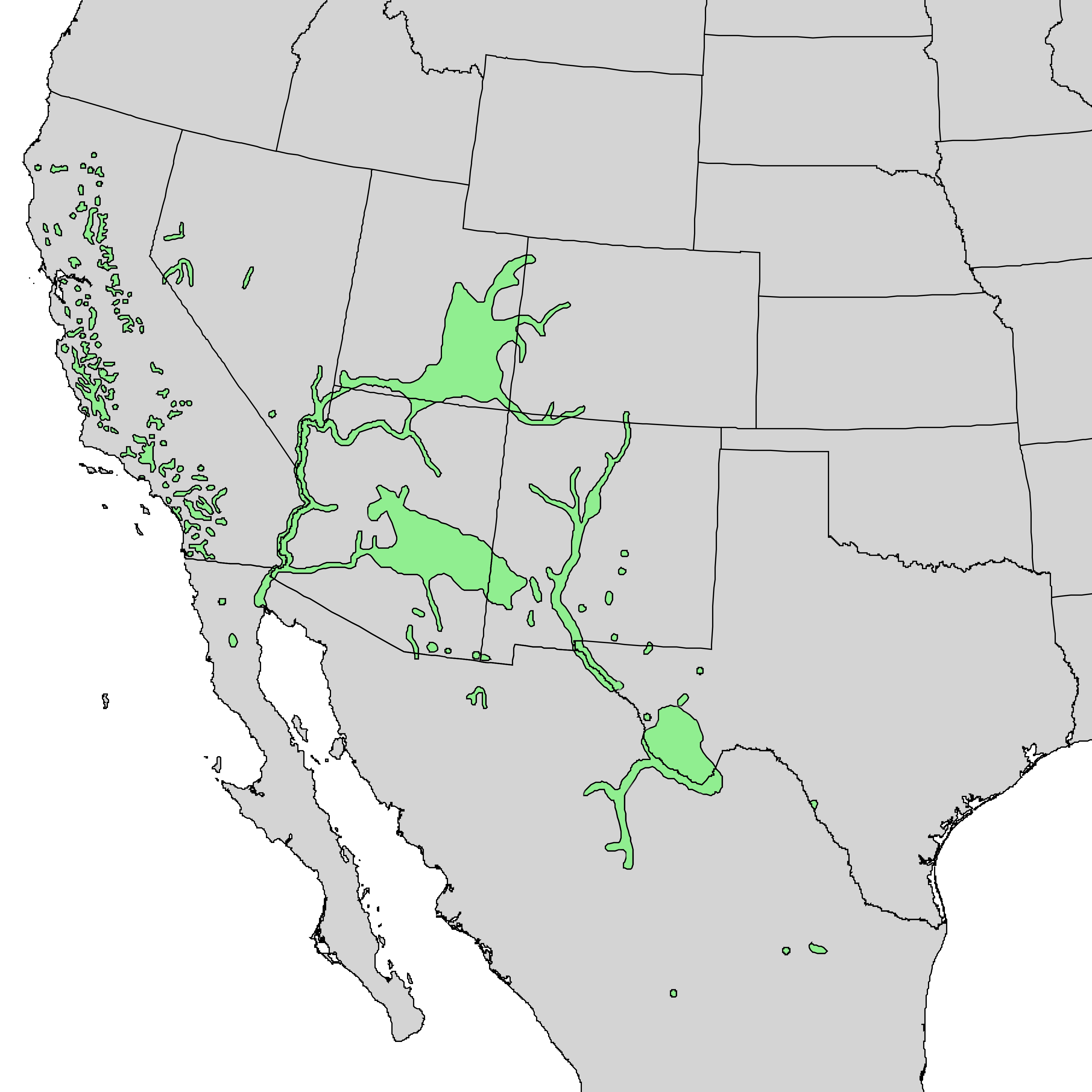 Natural distribution map for Populus fremontii